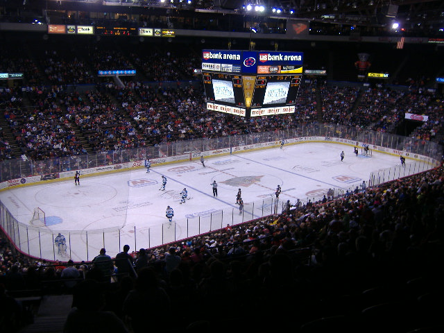 The Cincinnati Cyclones vs. Evansville IceMen at US Bank Arena in Cincinnati on March 30, 2013.